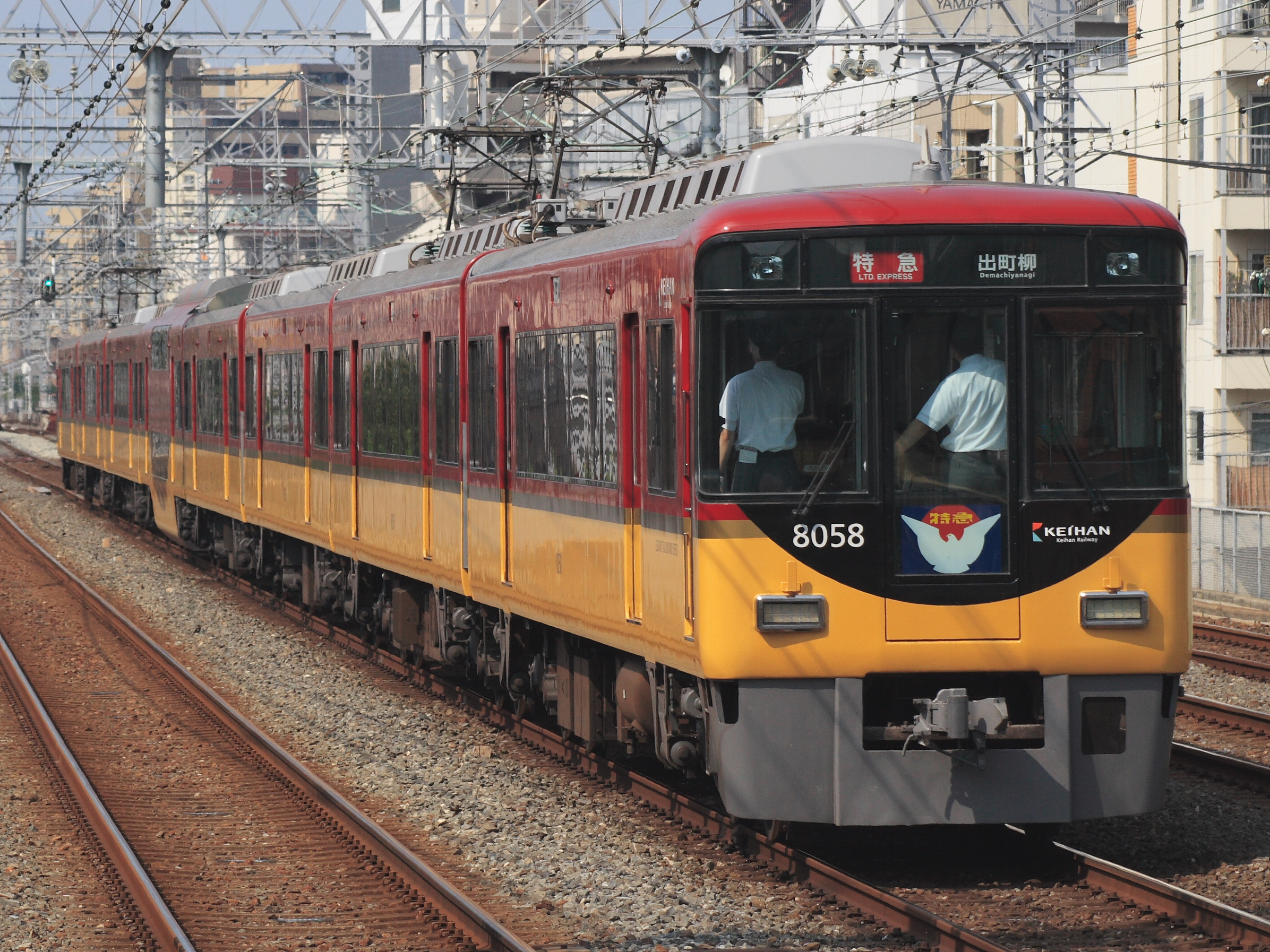 A reliveried Keihan Railway 8000 series EMU